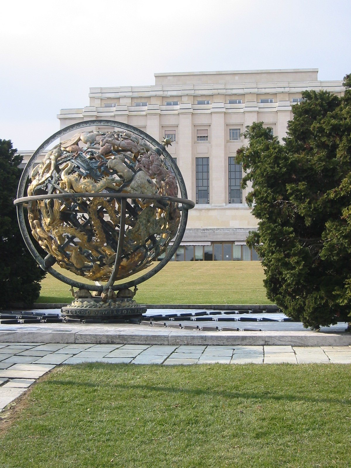 Sculpture in the garden of the ONU building, Geneva